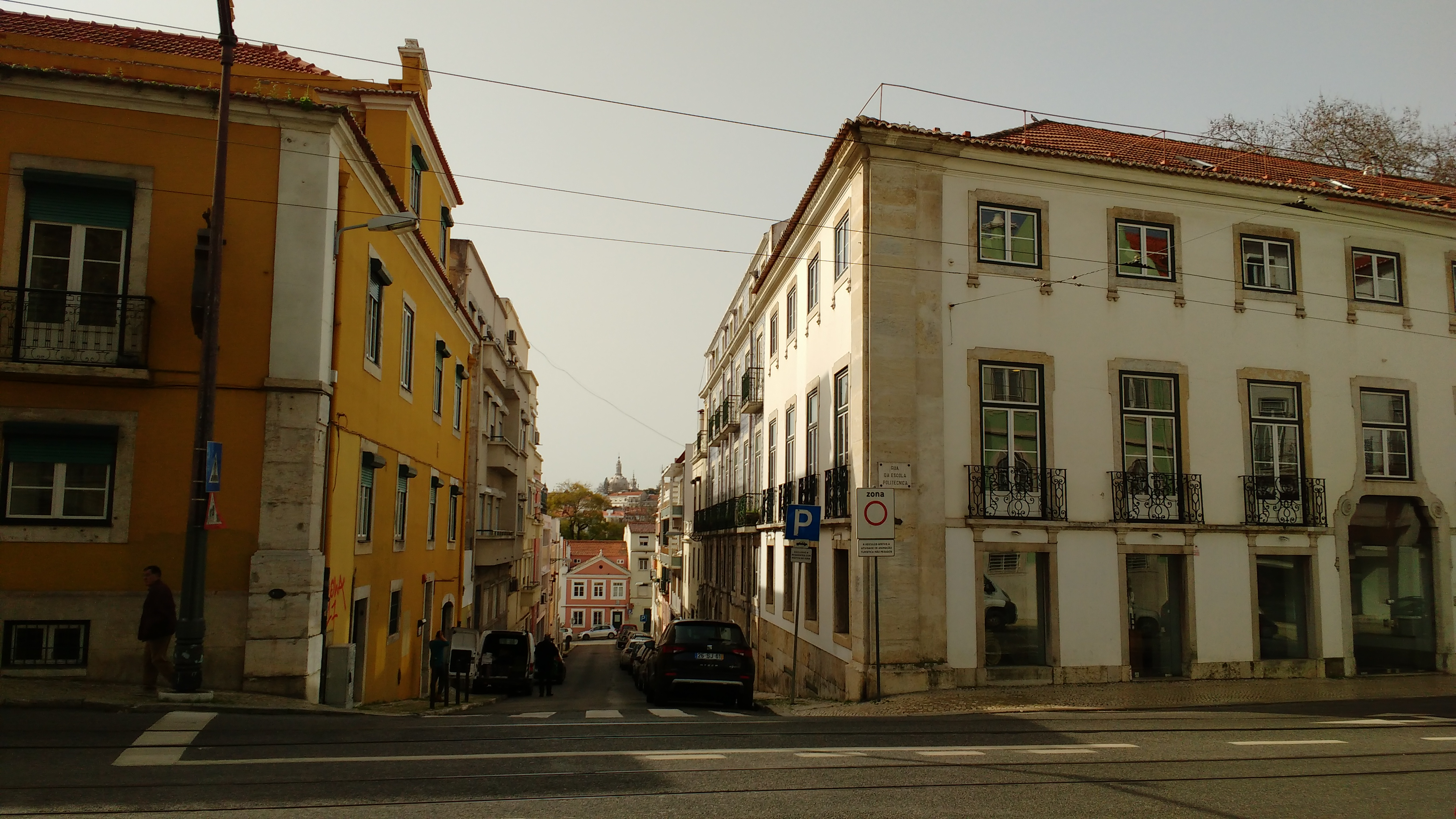 Lisbon